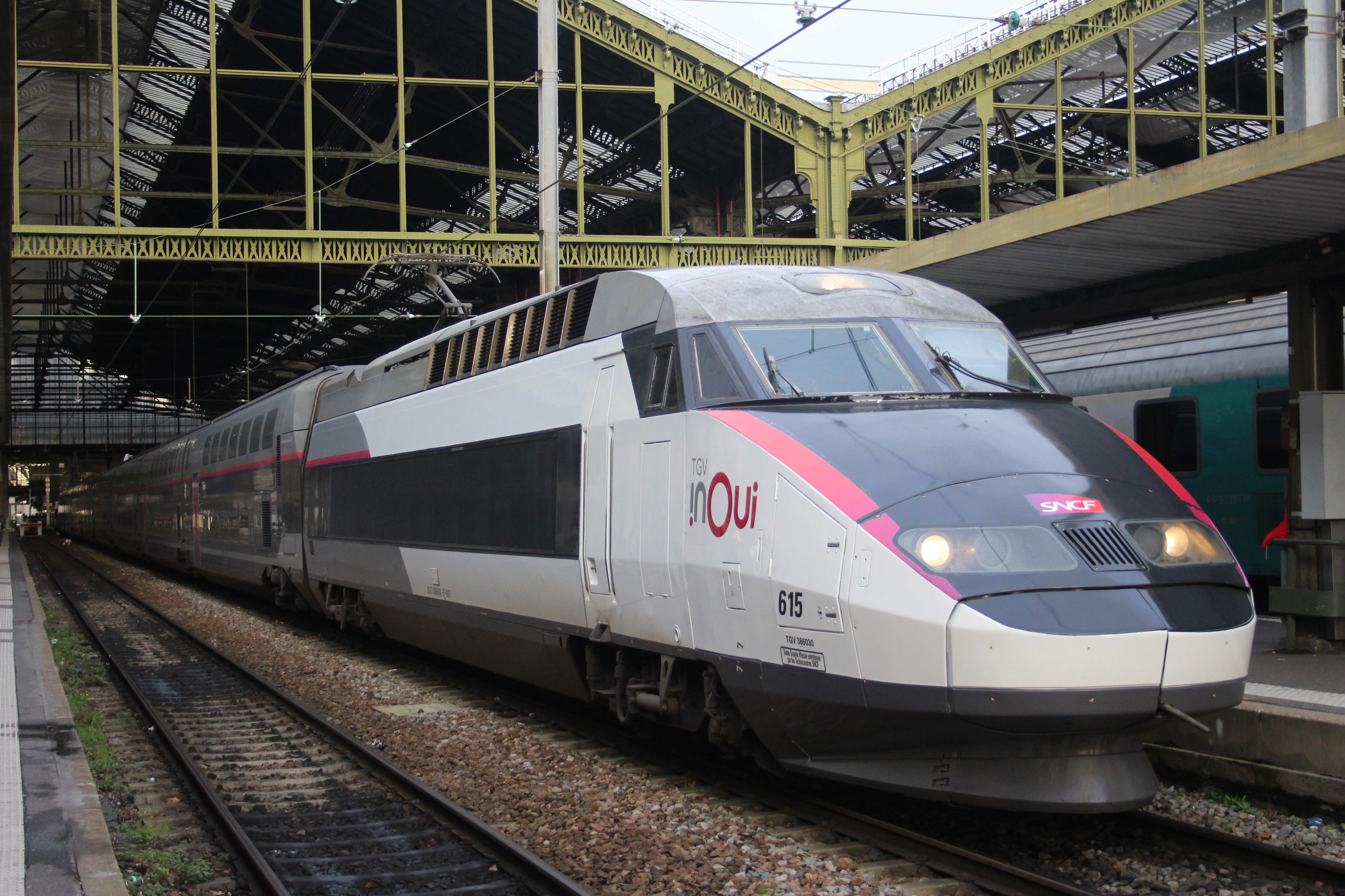 A SNCF TGV inOui Reseau Duplex at Paris Gare de Lyon, in the new Carmillon livery. This somewhat peculiar trainset was formed from older power cars, and newer double-deck trailer cars.